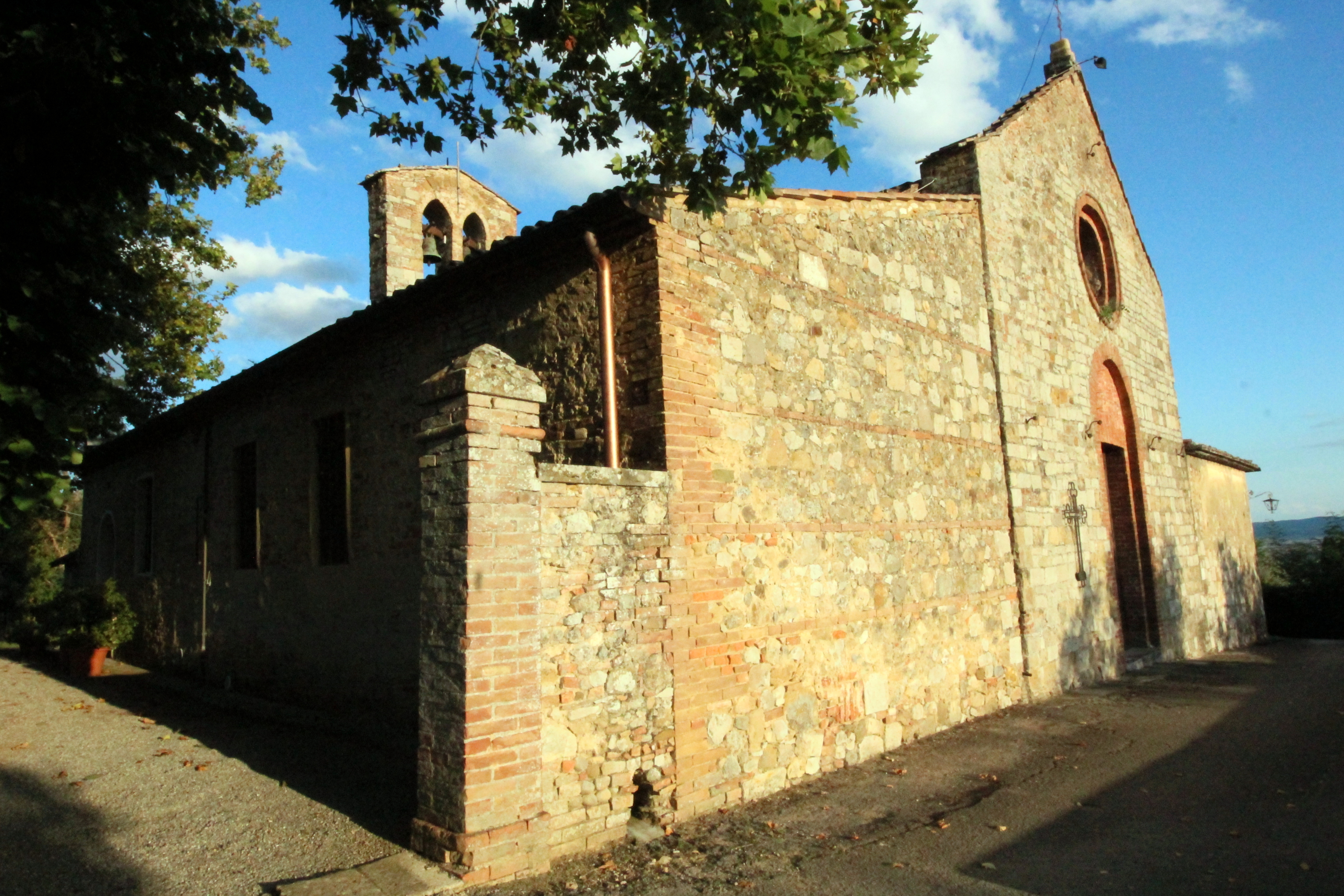 Church Chiesa di Sant’Agnese a Vignano, Vignano, hamlet of Siena, Province of Siena, Tuscany, Italy.